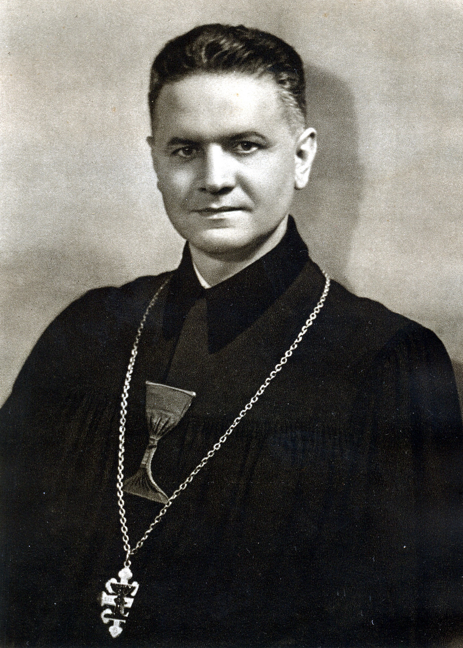 Miroslav Novák, theologist